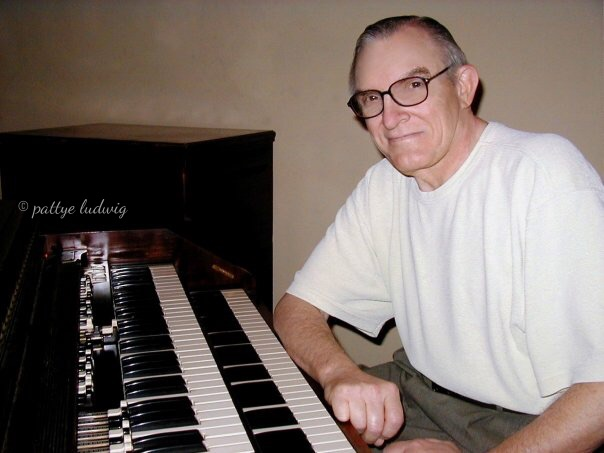 promo shot